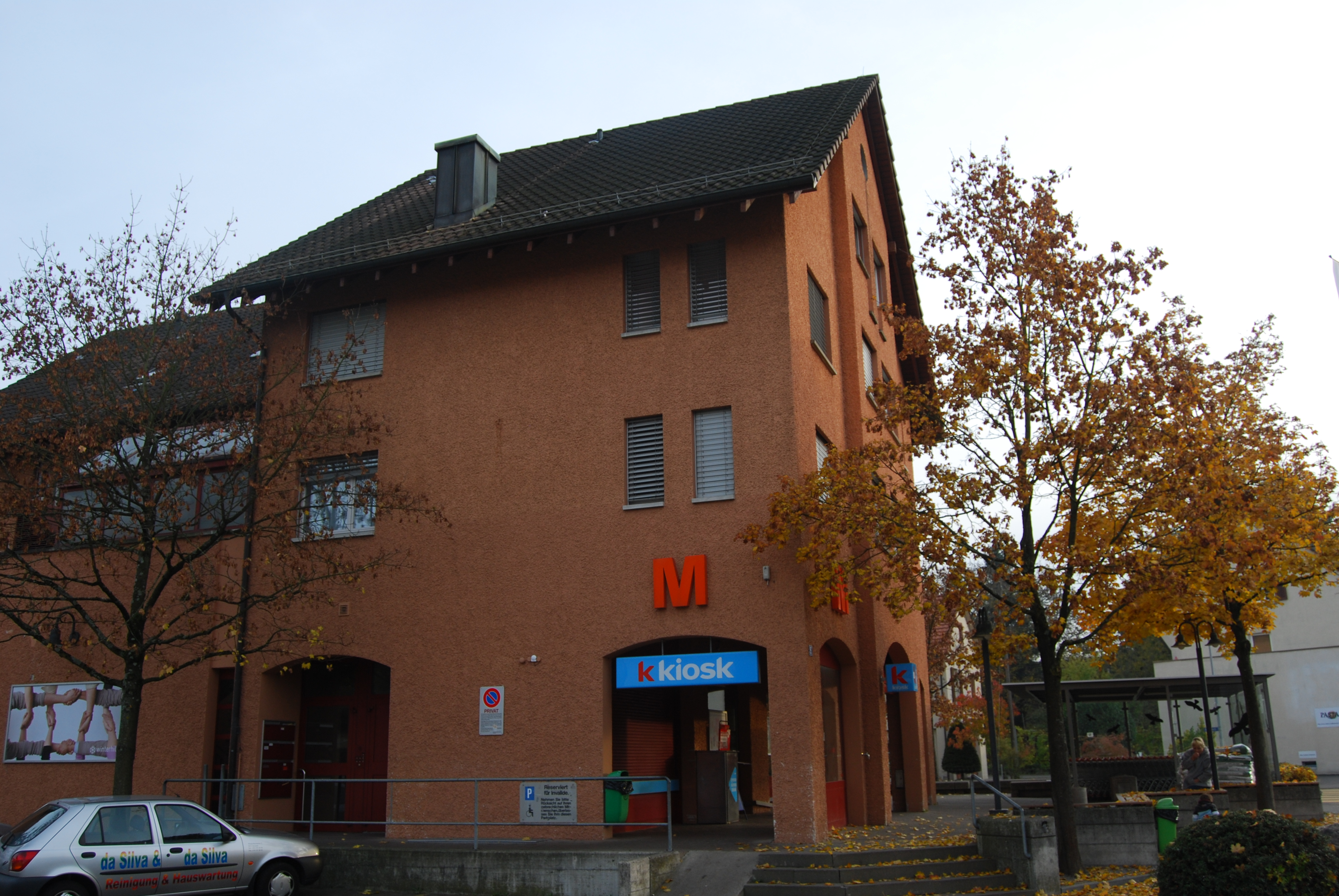 Migros supermarket at Seuzach, canton of Zürich, SwitzerlandEsperanto: Migros-supermerkato en Seuzach, Kantono Zuriko, Svislando